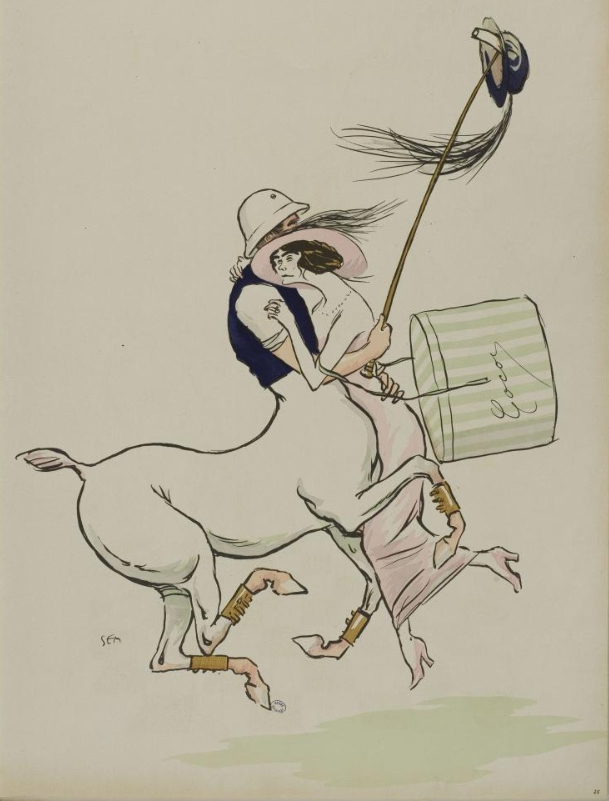 Caricature of Coco Chanel dancing with Boy Capel in "Tangoville sur mer"